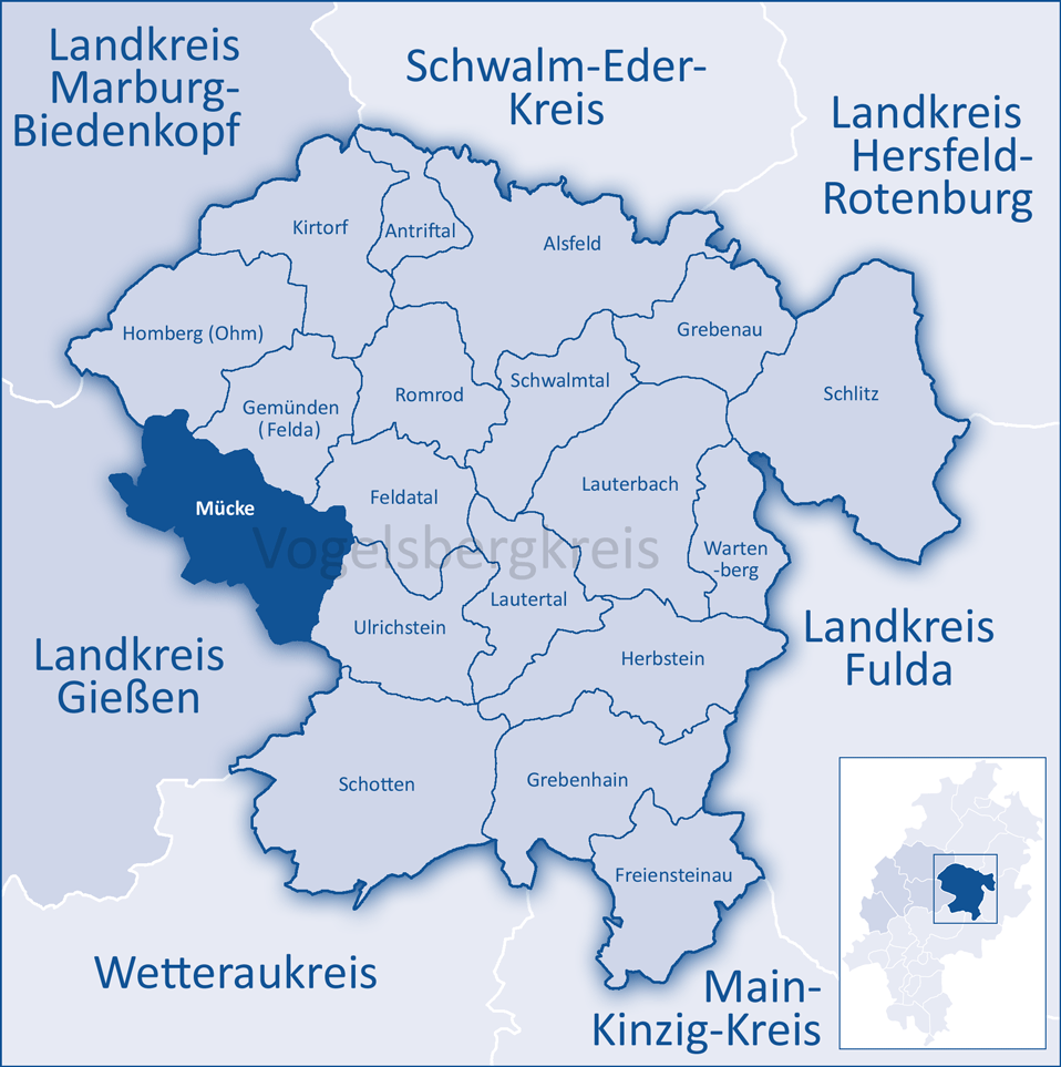 The map shows a district in the area of Vogelsbergkreis